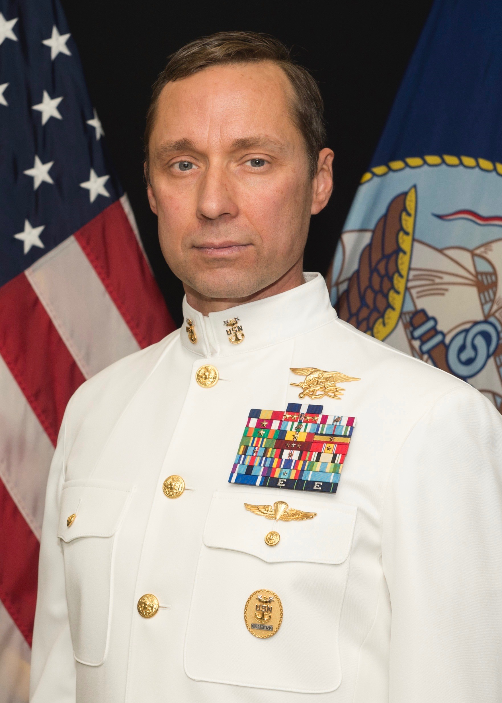 180507-N-N0101-110WASHINGTON (May 7, 2018) An undated official portrait of retired Master Chief Special Warfare Operator (SEAL) Britt K. Slabinski. President Donald J. Trump will award the Medal of Honor to Master Chief Slabinski during a White House ceremony on May 24, 2018 for his heroic actions during the Battle of Takur Ghar in March 2002 while serving in Afghanistan. Master Chief Slabinski is being recognized for his actions while leading a team under heavy effective enemy fire in an attempt to rescue SEAL teammate Petty Officer 1st Class Neil Roberts during Operation Anaconda in 2002. The Medal of Honor is an upgrade of the Navy Cross he was previously awarded for these actions. (U.S. Navy photo/Released)